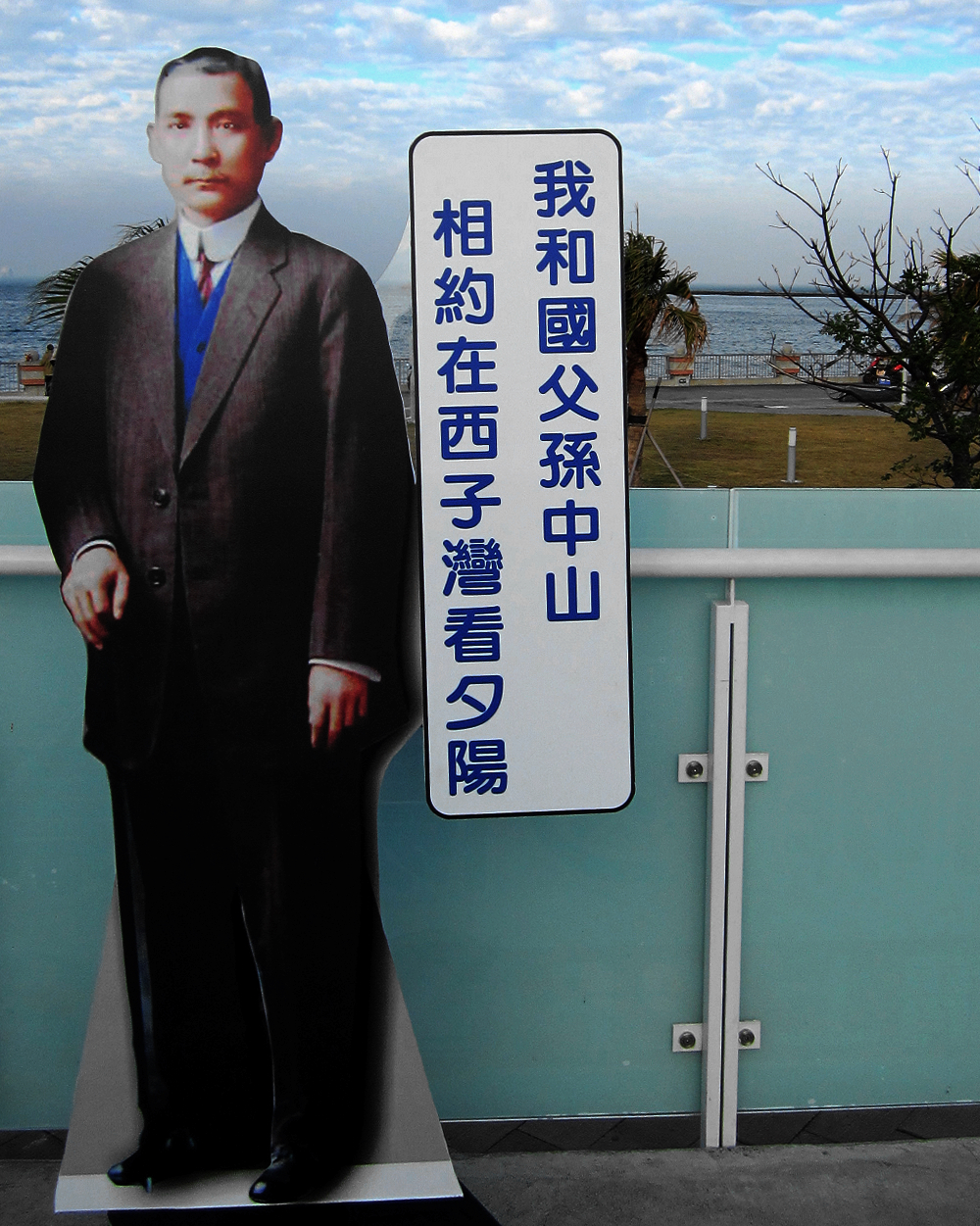 NSYSU Xizihall